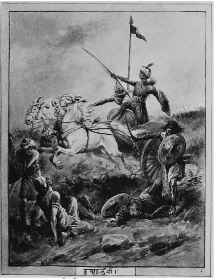 from the book of mahabharata by Romesh Chunder Dutt